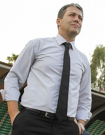 Dragan Skočić